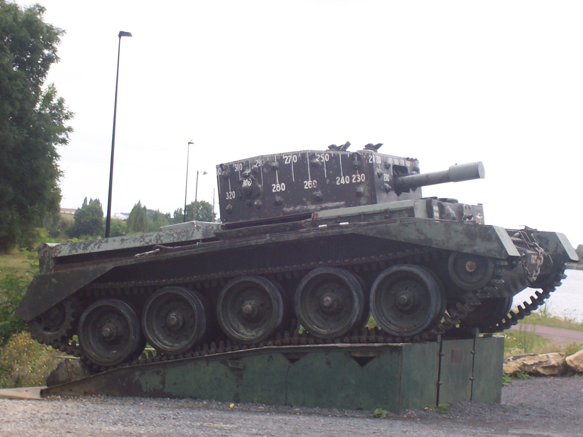 Tank, Cruiser, Mk VIII, Centaur IV (A27L) at Pegasus Bridge, Normandy, photographed 2005, by King_Nothing.